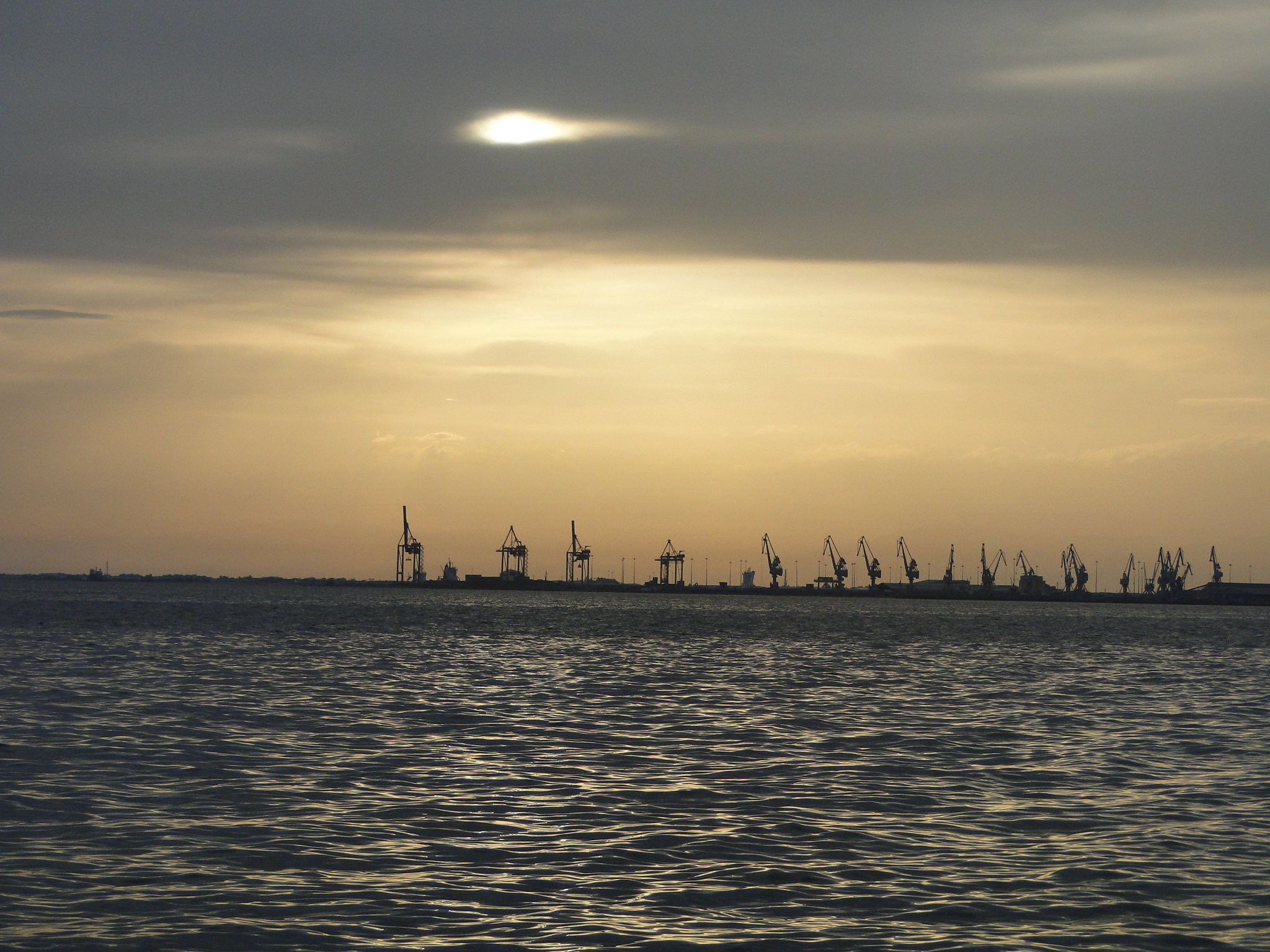 The harbor of Thessaloniki by sunset.